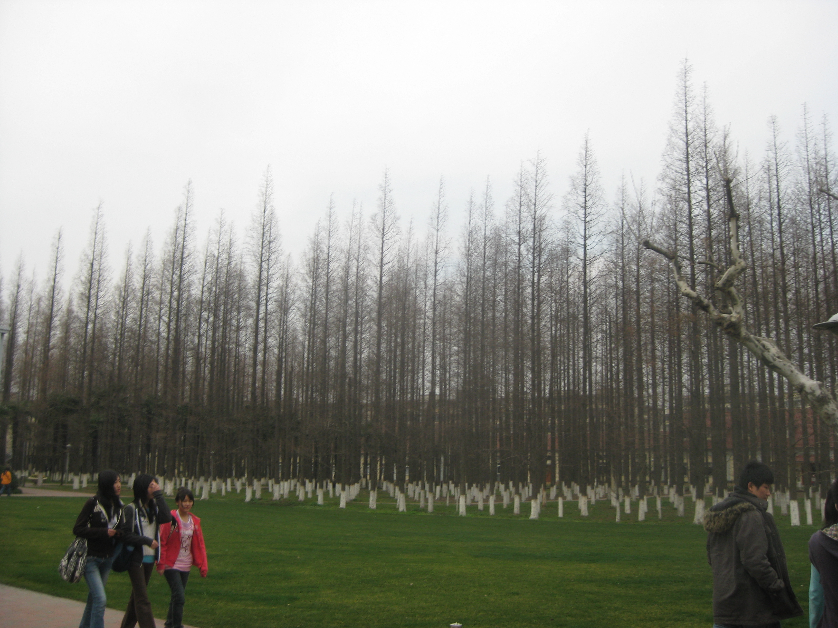 A picture of a small forest on the north side of the campus.